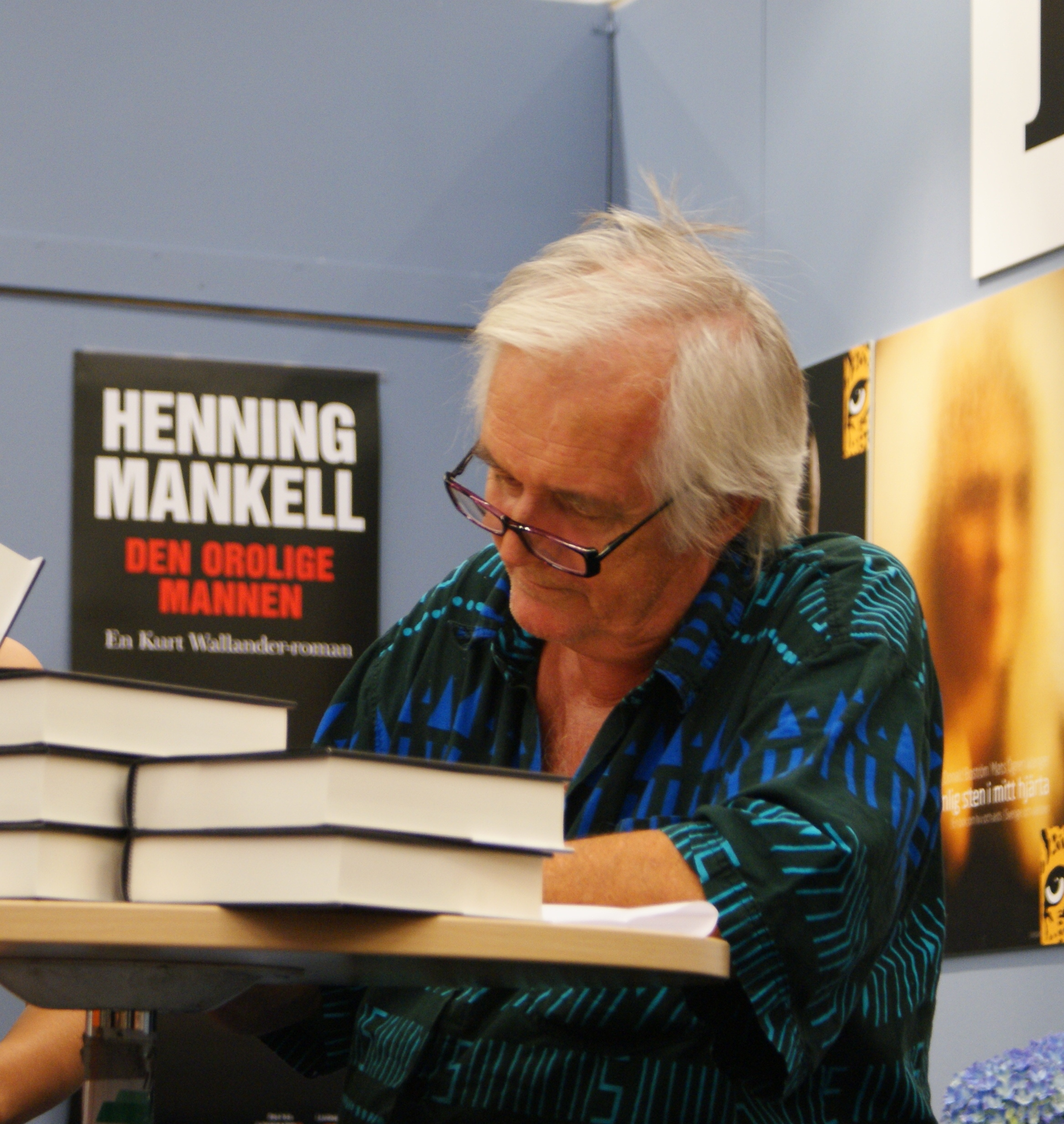 At the bookfair in Gothenburg 2009.